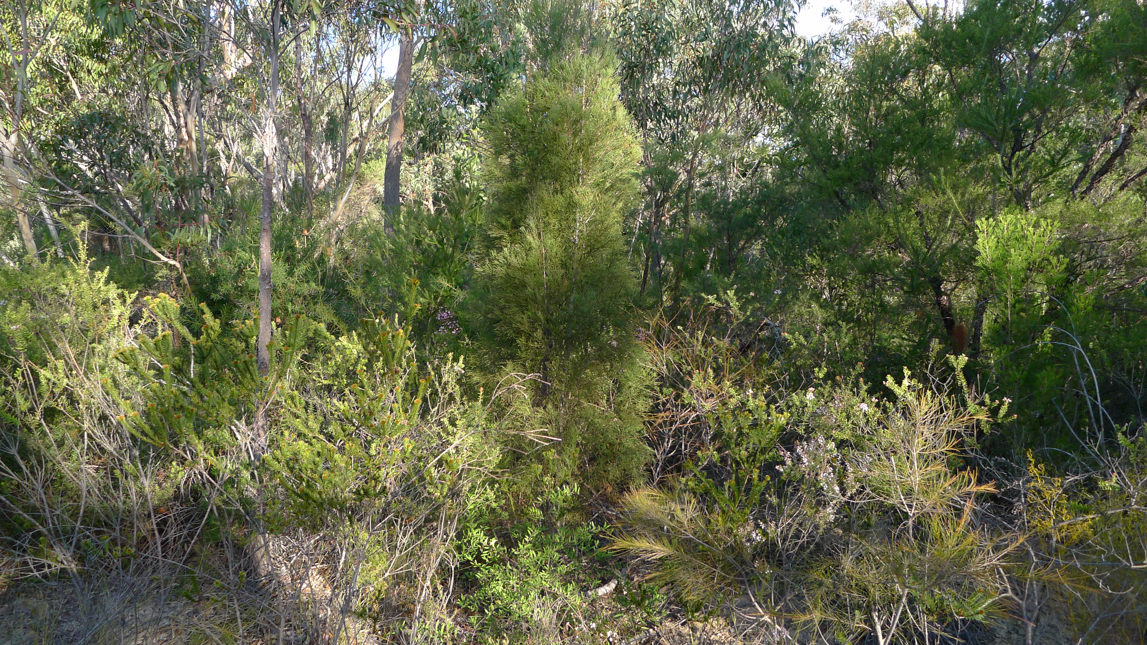 Part of the bushland, Callitris muelleri. Heathcote National Park, NSW Australia, July 2011.